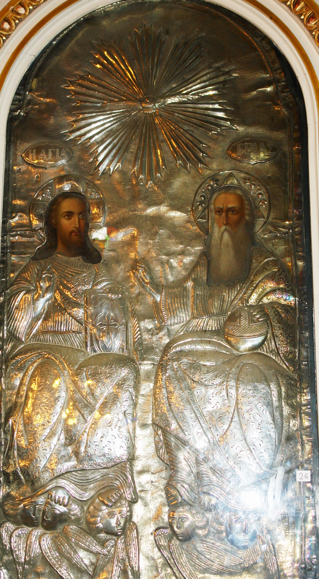 The Holy Trinity an Orthodox icon at the Church o Agios Georgios at the island of Prinkipos at Prinkiponisia, Turkey.